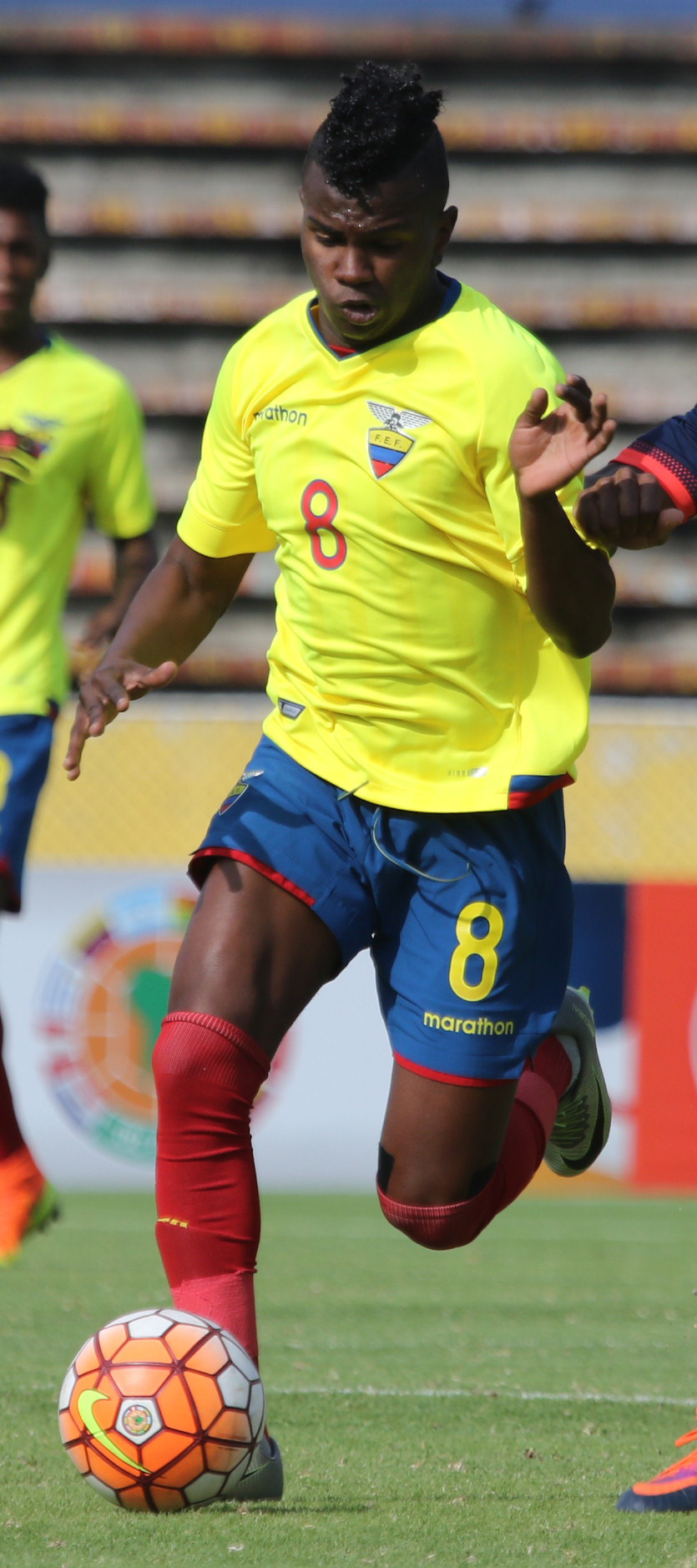 ECUADOR VS COLOMBIA SUB 20